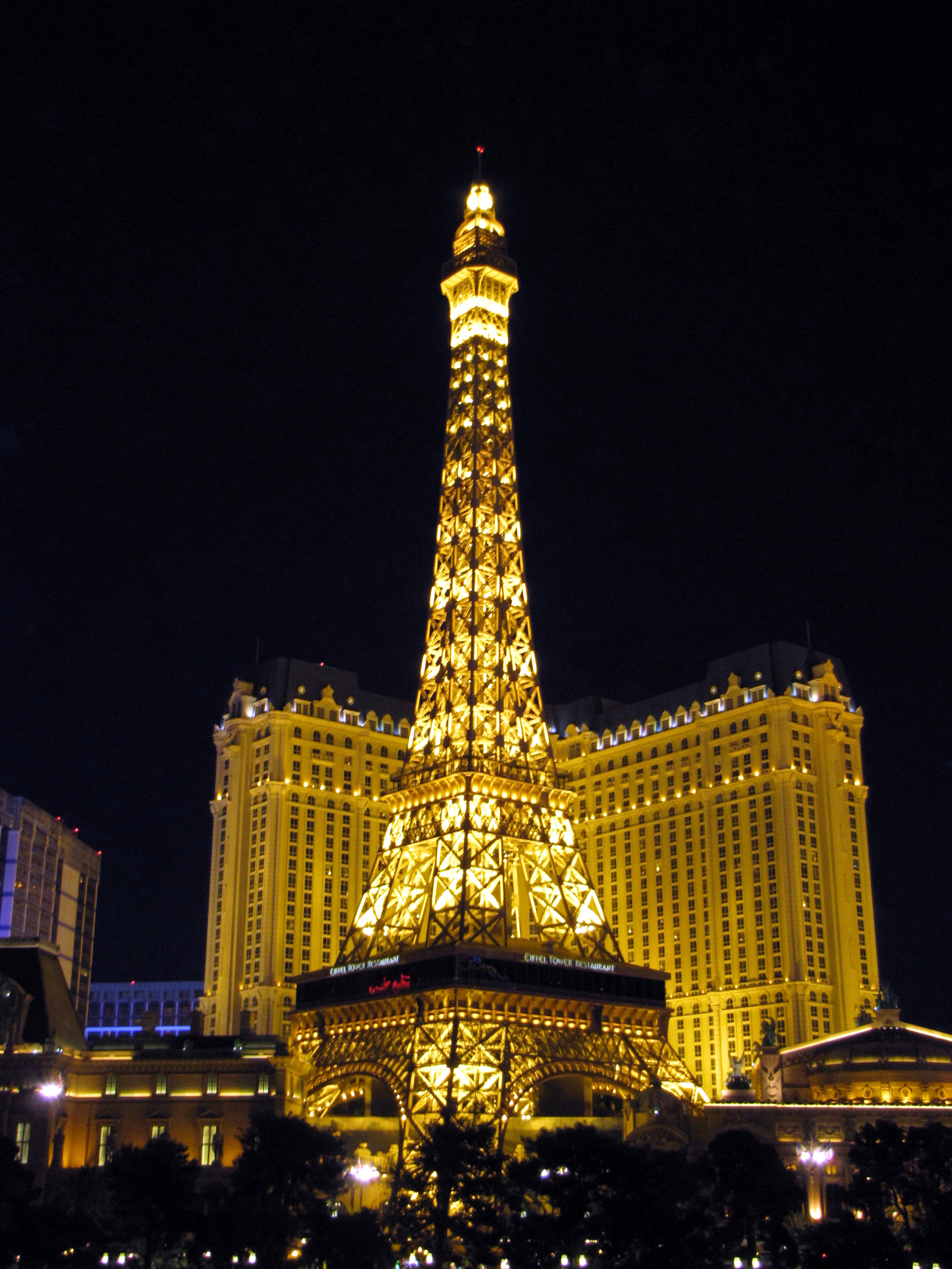 Paris Las Vegas in 2009 at night.